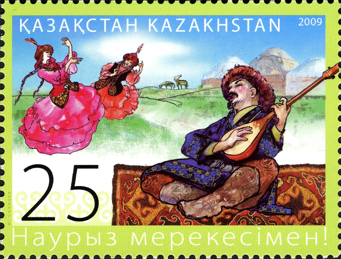 Stamp of Kazakhstan